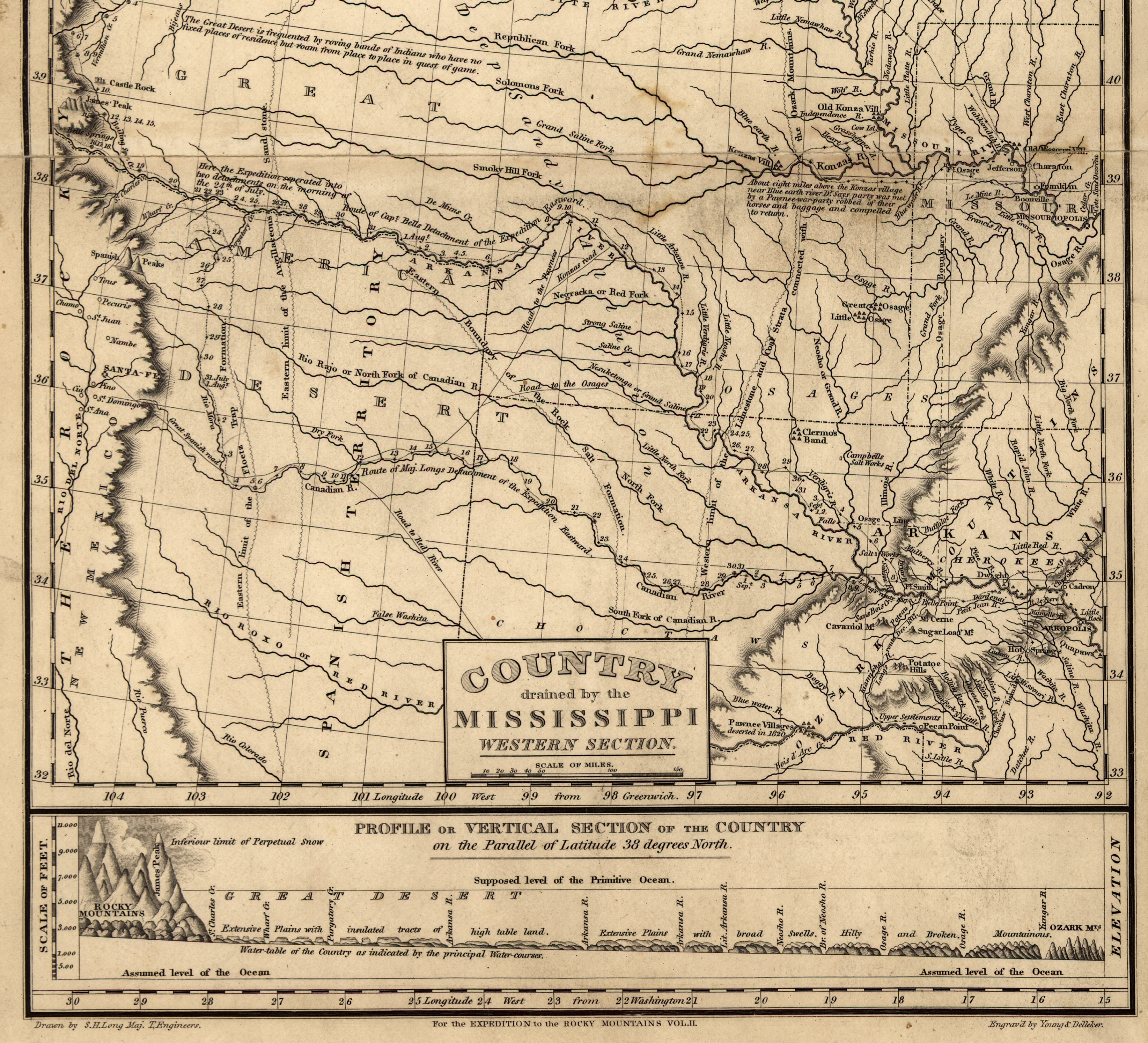 Country Drained by the Mississippi, by S. H. Long, Philadelphia: Young & Delleker, 1823